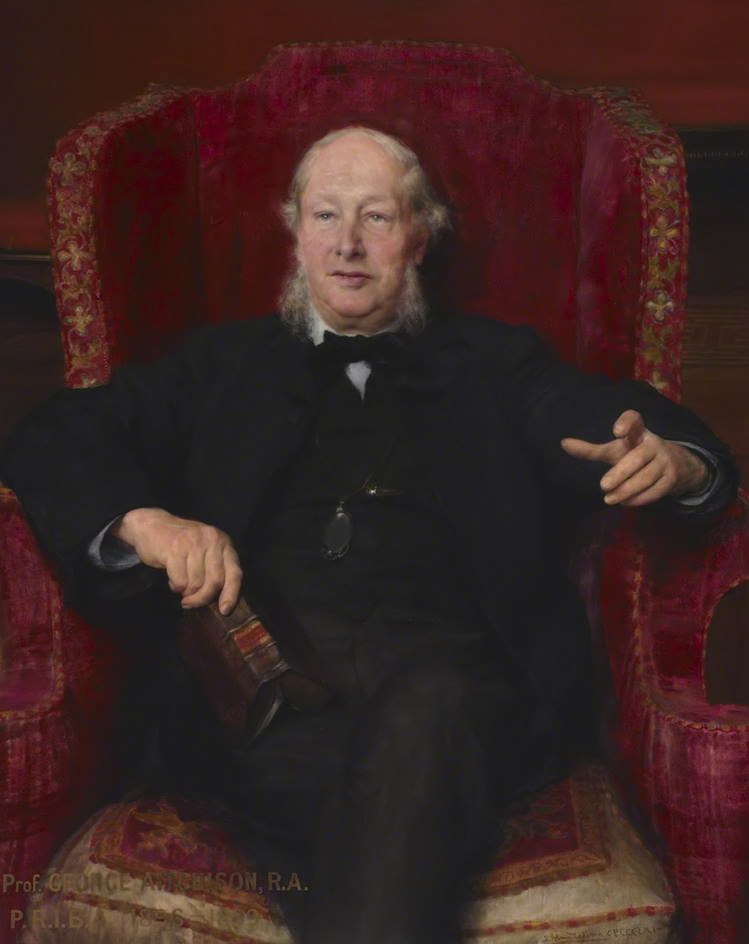 Professor George Aitchison (1825-1910), RA, RGM, PRIBA oil on canvas 117 x 91.5 cm 1900